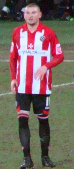 Mark Yeates in his Blades Kit.